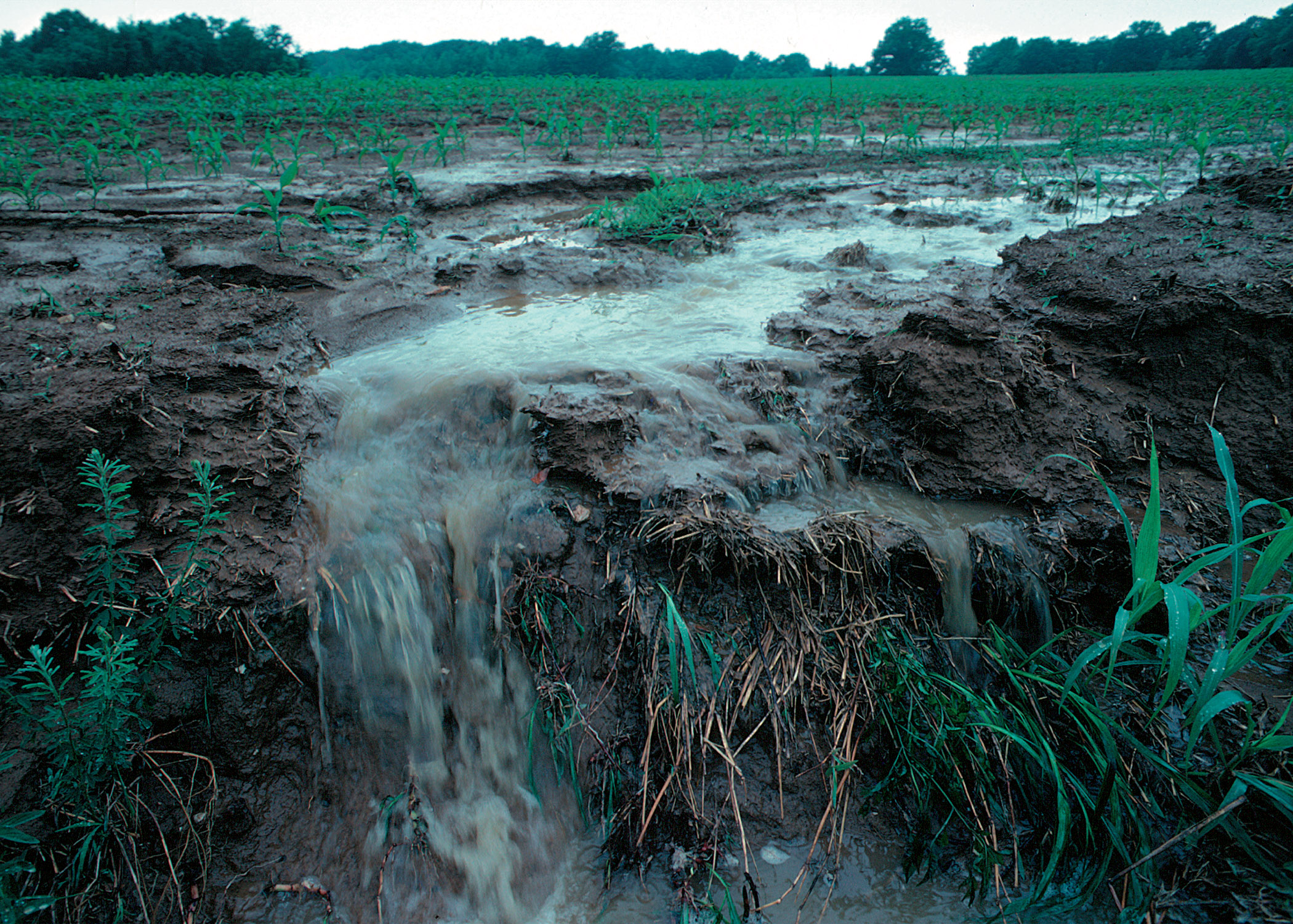 View of runoff, transporting nonpoint source pollution, from a farm field in Iowa during a rain storm.Caption: "Topsoil as well as farm fertilizers and other potential pollutants run off unprotected farm fields when heavy rains occur."